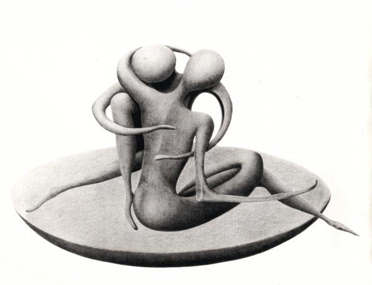 photo of a pencil on paper drawing by Pier Augusto Breccia from 1979